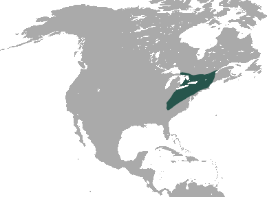 Hairy-tailed Mole (Parascalops breweri) range